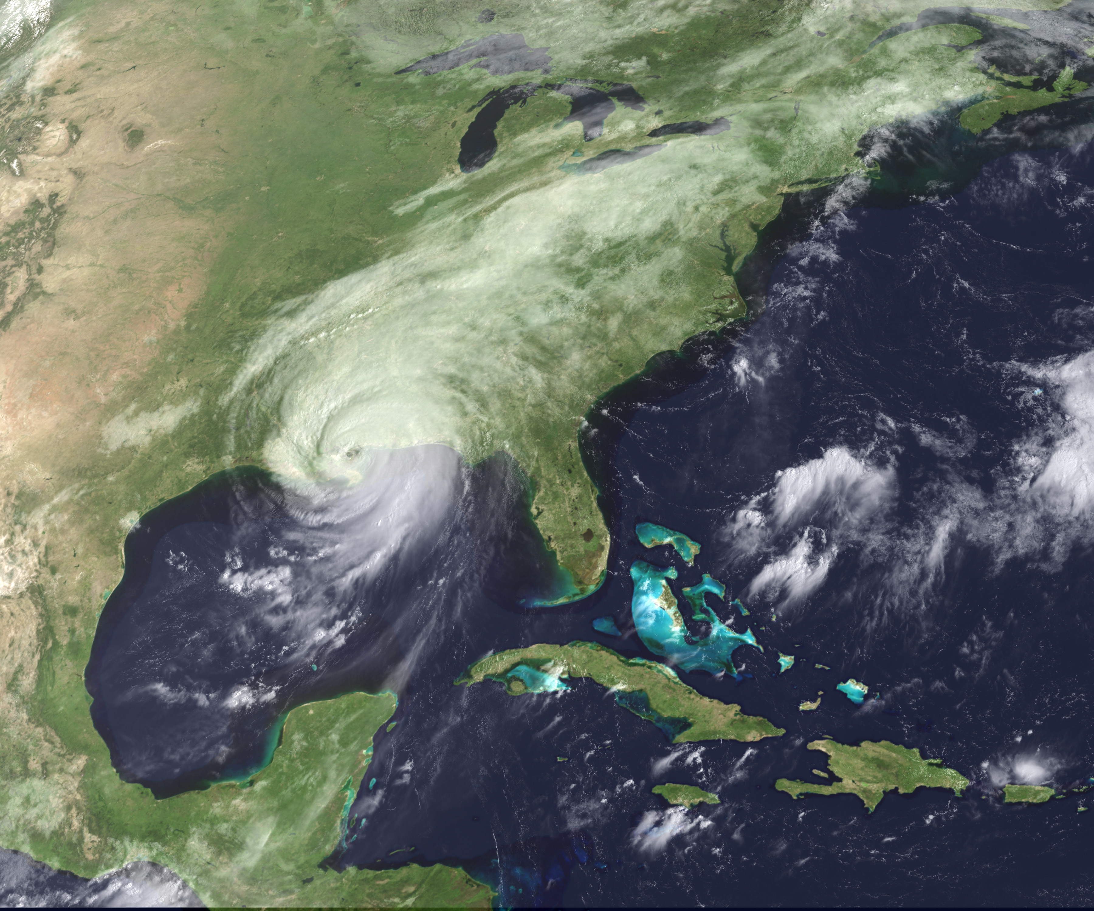 NASA Earth observatory image of Hurricane Katrina hitting New Orleans